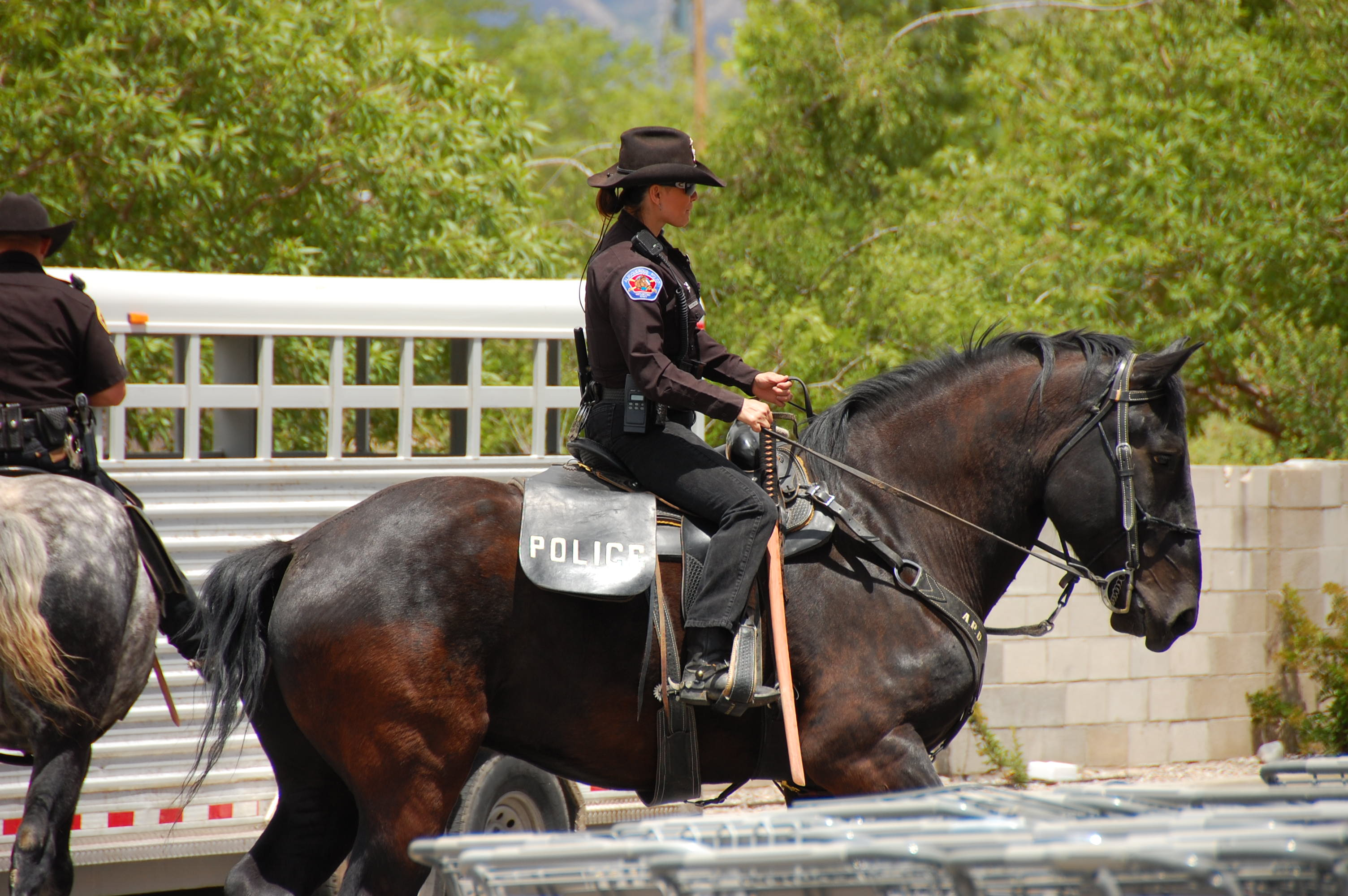 Percherons used for crowd control, search and rescue and tracking.